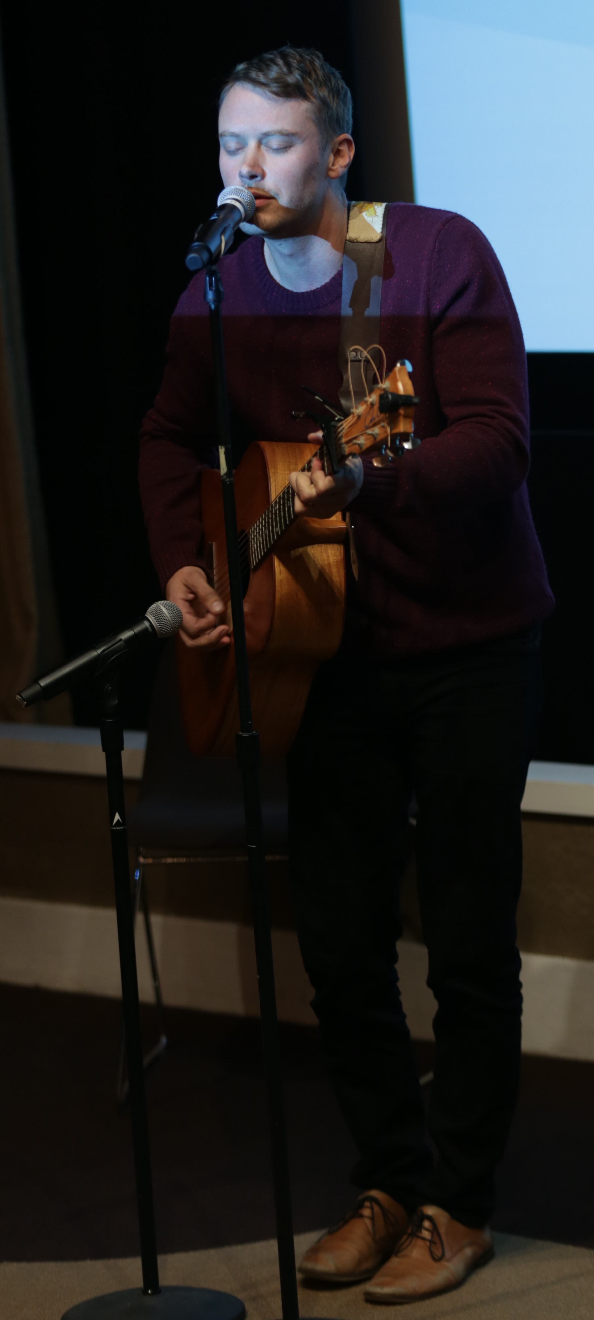 Michael Dorman, Lead Actor, Patriot Amazon TV series plays guitar for New America